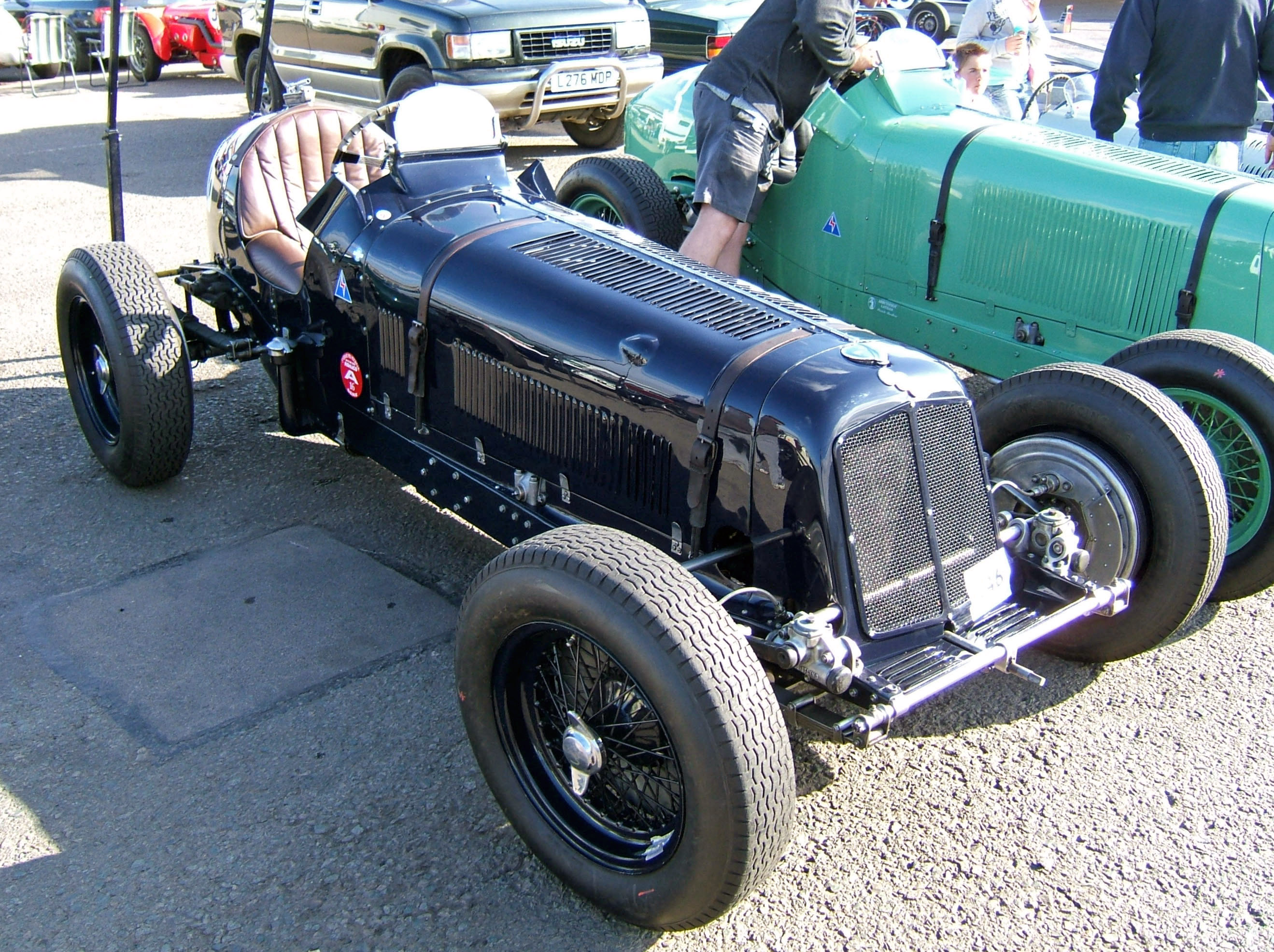 ERA R6B in the paddock of the VSCC SeeRed race meeting, Donington Park, September 2007. ERA R6B was originally purchased by Bentley Boy, Le Mans-winner and founder of the BRDC, Dr. Dudley Benjafield.